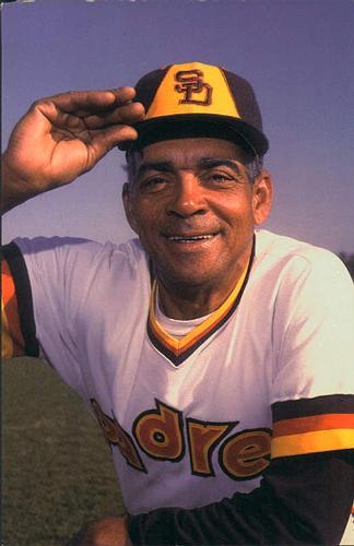 Color postcard from the 1983 San Diego Padres Postcards set of professional baseball coach Ozzie Virgil, Sr.